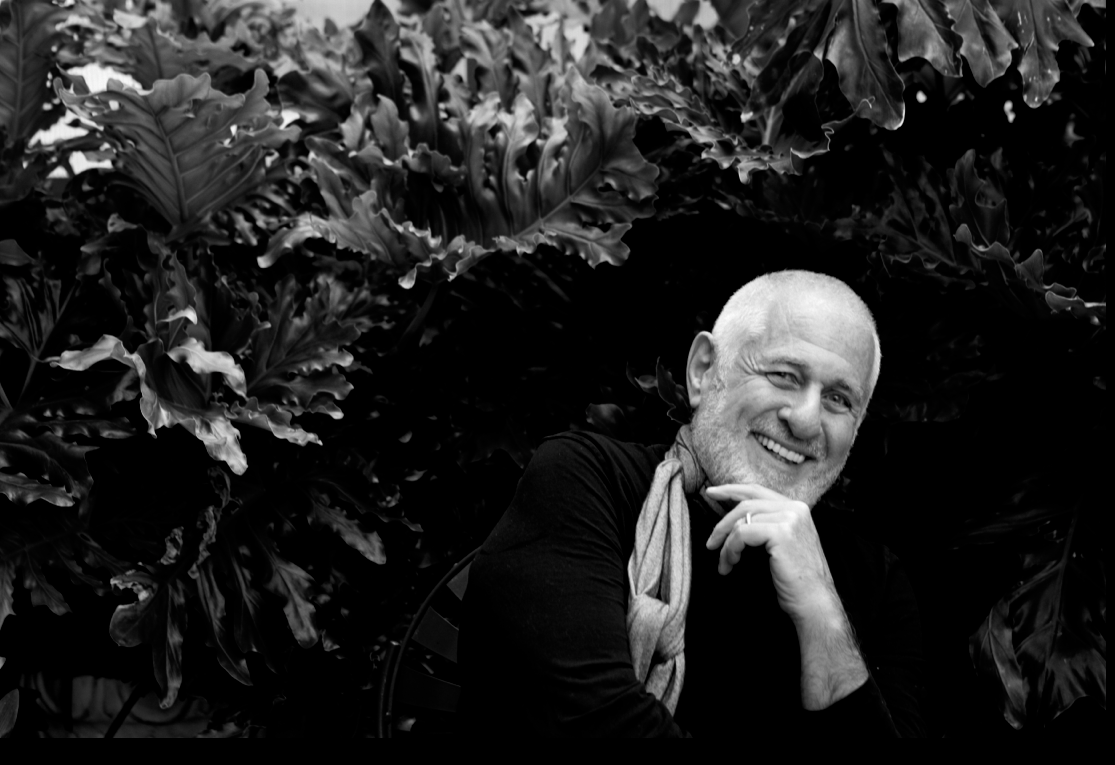 RSW Black and White